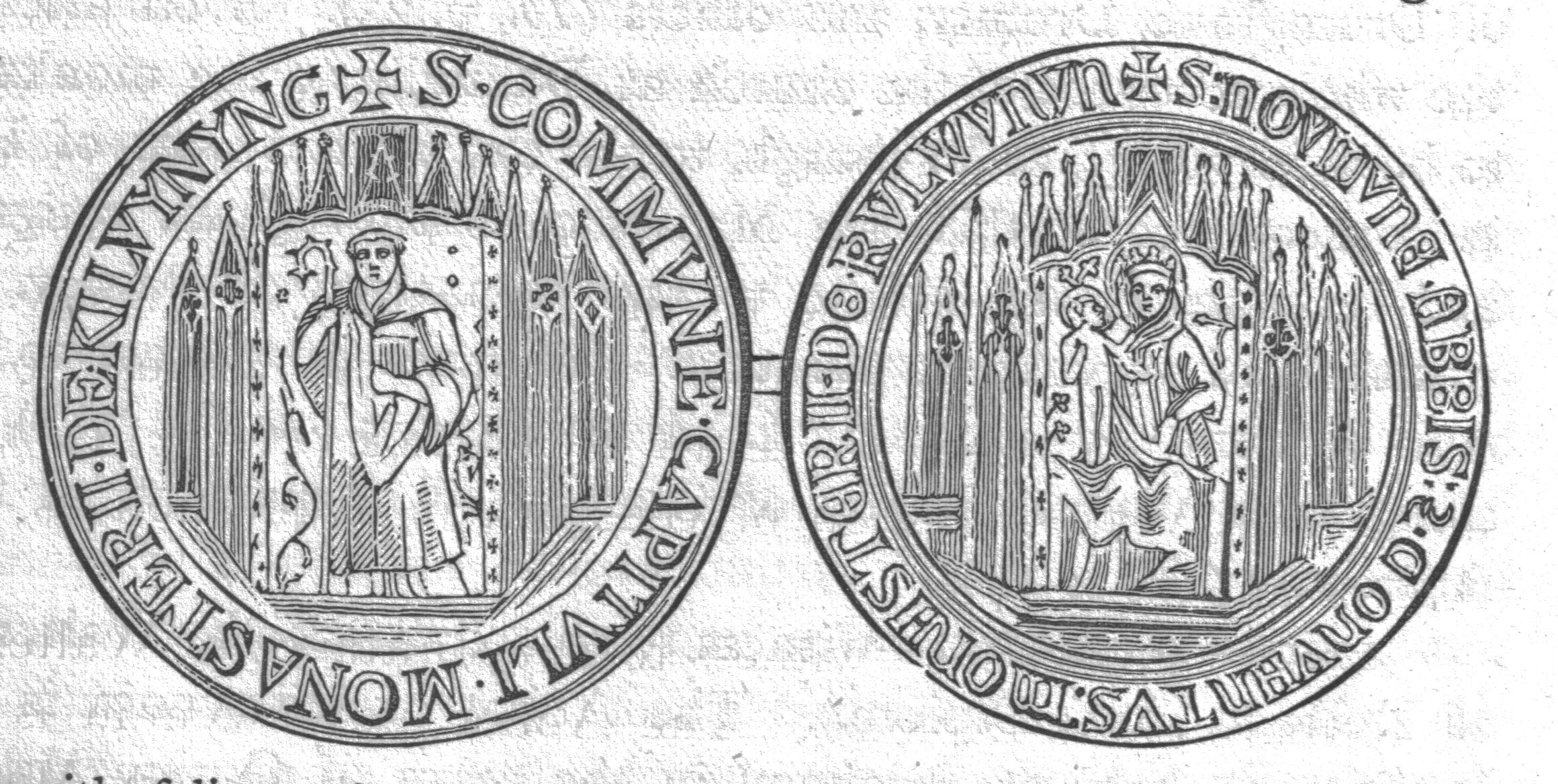 The Seal og the Monstery of Kilwinning. Kilwinning. Ayrshire. Scotland.